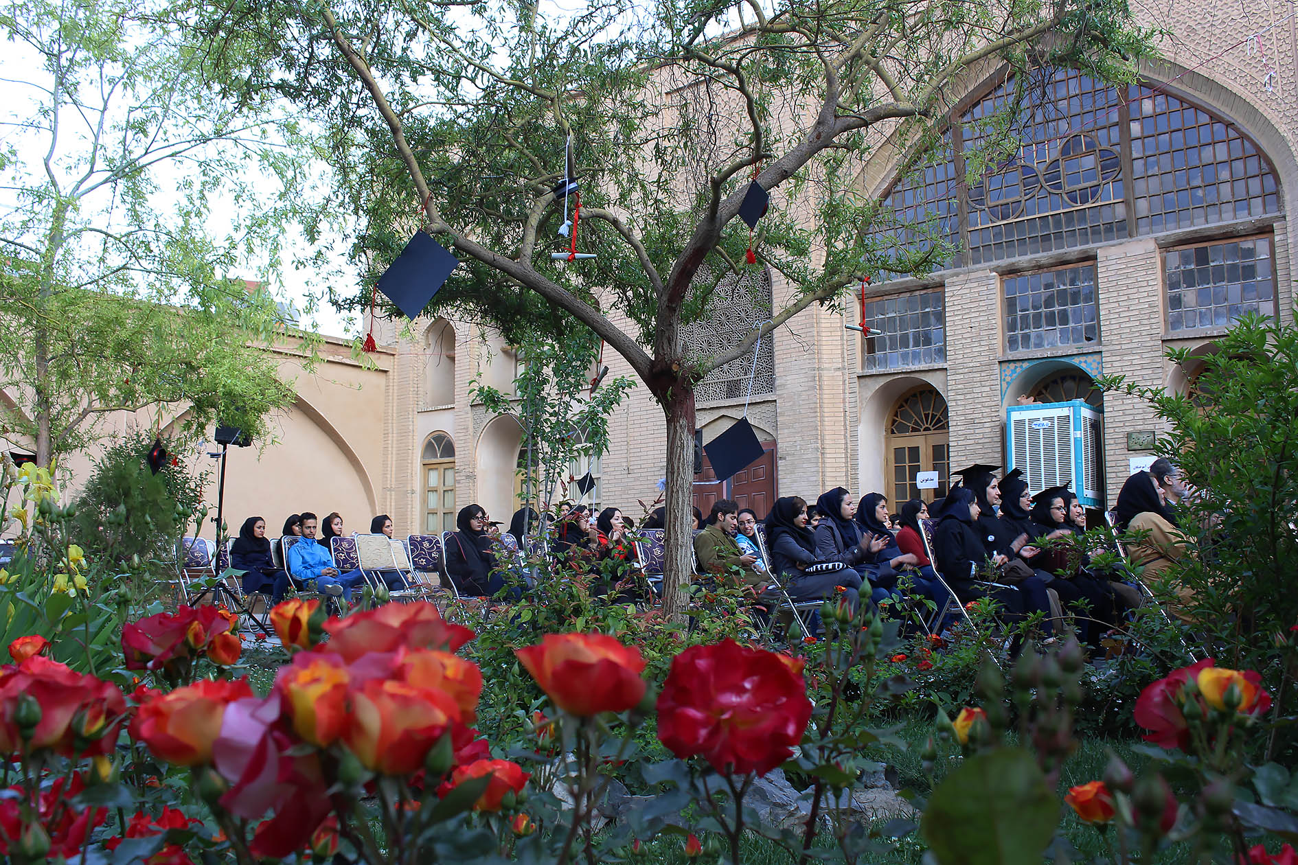 Khachikian historical house